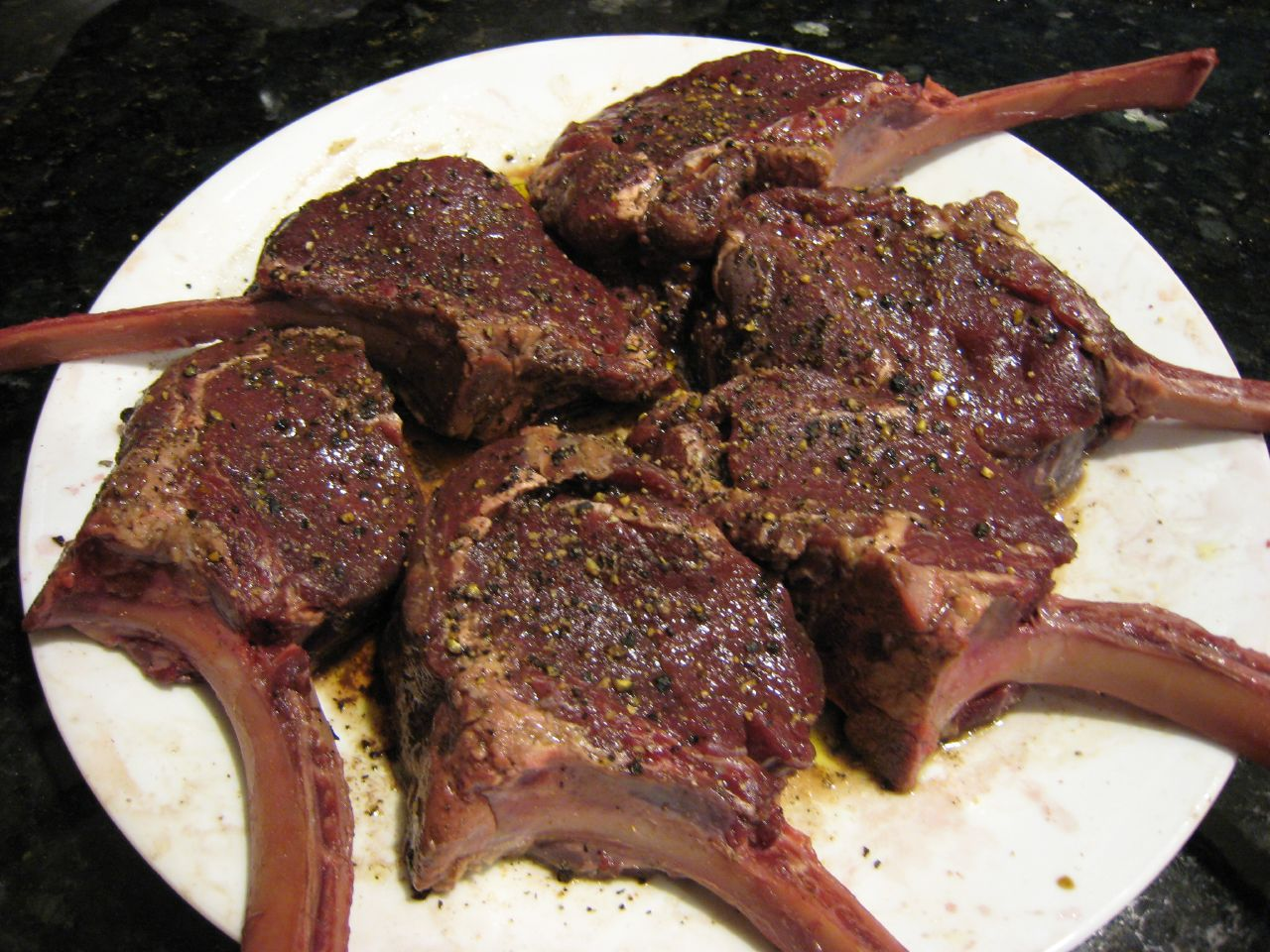 I sliced the elk rib rack to maximize the grilled surface, yum.